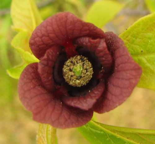 Flower of Asimina triloba — Pawpaw.